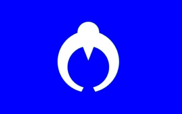 Flag of Kamikoani Akita